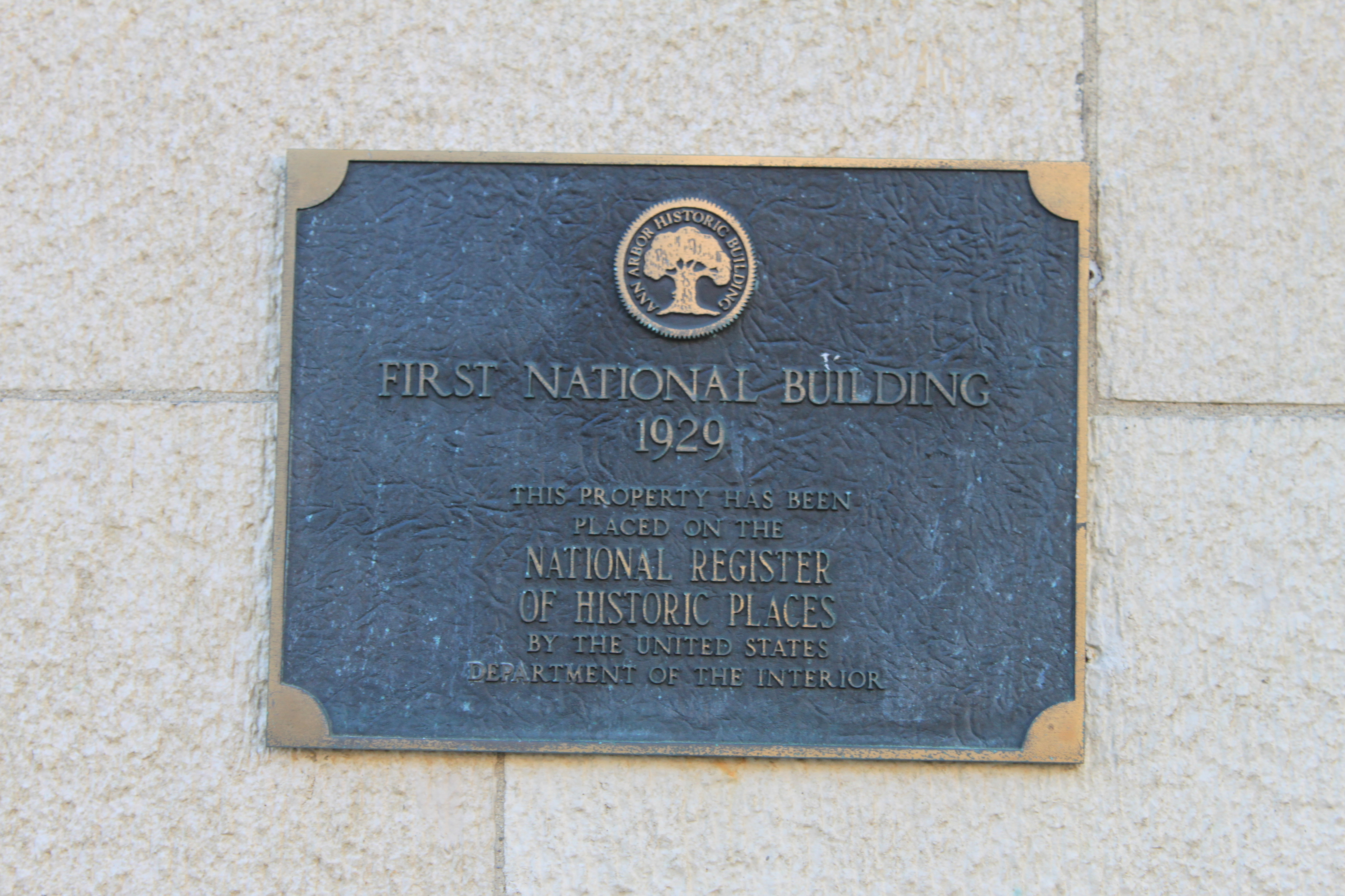 First National Bank historical marker, 201 S. Main St., Ann Arbor, Michigan 48104